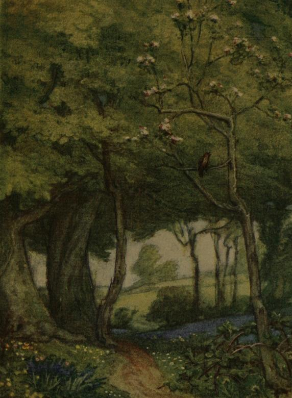 Illustration of poem by John Keats by W. J. Neatby (1860-1910)